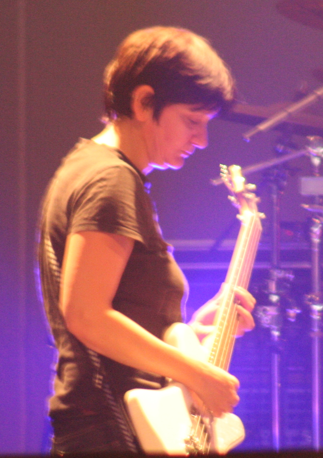 An cropped image of My Bloody Valentine bassist Debbie Googe performing at Roskilde Festival in Roskilde, Sweden on 5 July 2008.